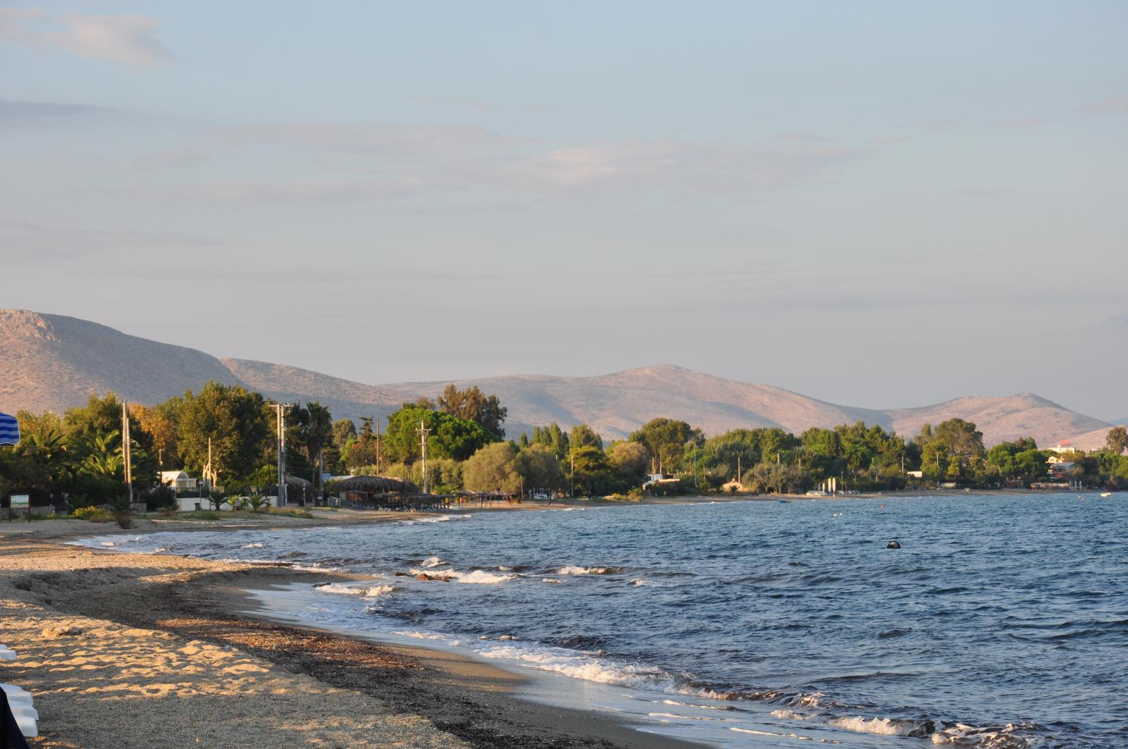 Marathon, Attica, Greece.